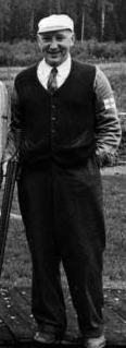 Photograph of the Finnish trap shooter Werner Ekman (1893–1968).